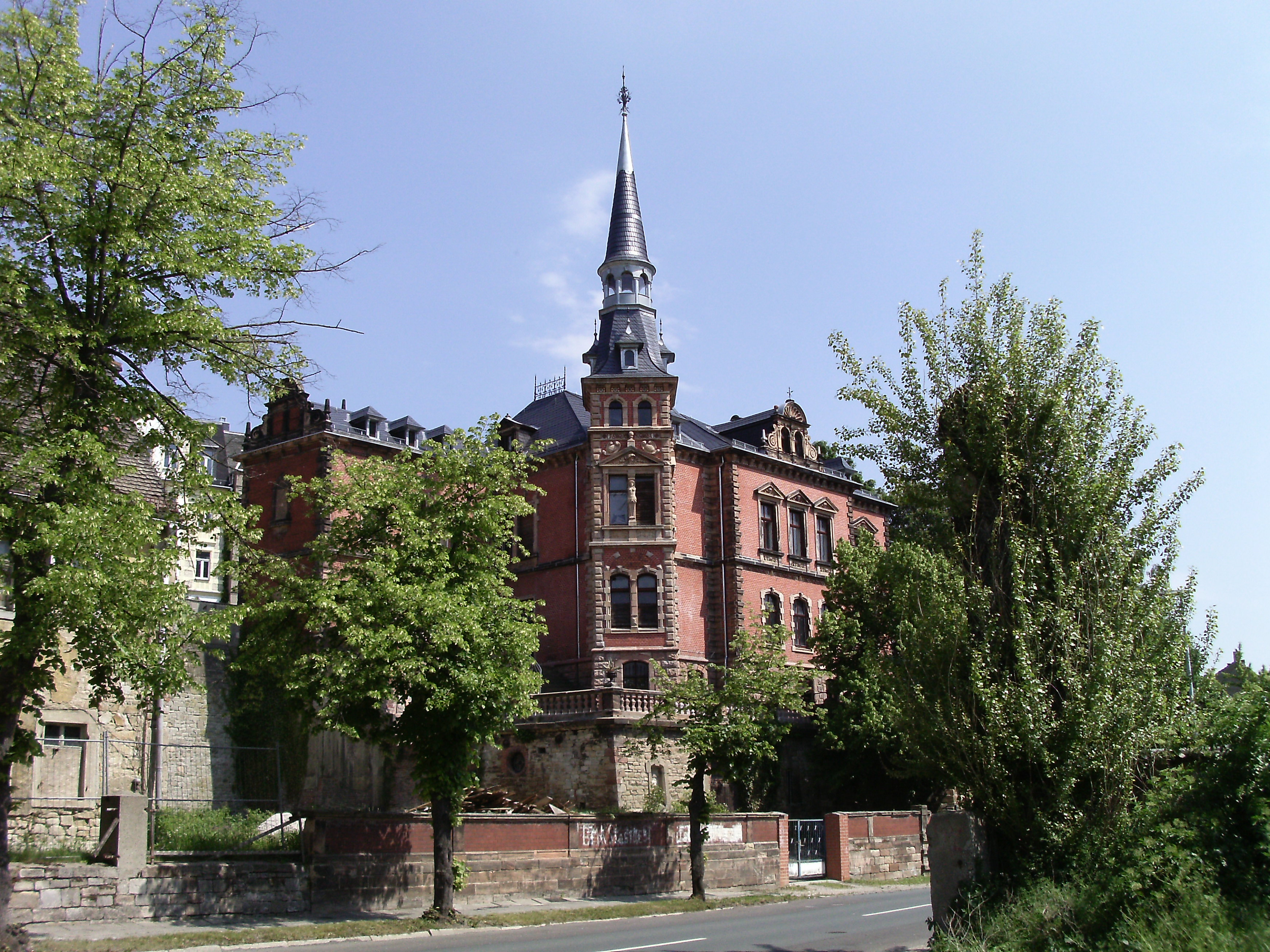 Dietrich Villa at Am Mühlberg No. 4/Markwerbener Strasse in Weissenfels (district of Burgenlandkreis, Saxony-Anhalt)